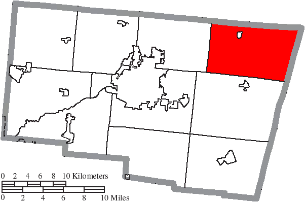 Map of the municipal and township boundaries of Clark County, Ohio, United States, as of the 2000 census, with the location of Pleasant Township highlighted. Township borders are shown only in unincorporated areas in order to differentiate incorporated and unincorporated areas more clearly.